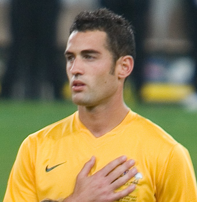 Carl Valeri sings the national anthem at the 2007 friendly against Uruguay